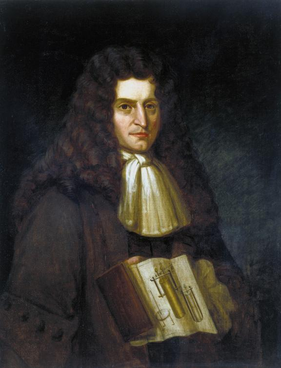 Painting. [Denis Papin (1647-c1712)] / 185-?. Oil on canvas; 91.3x71cm in gilt frame 114.5x94.5x9.5cm. - From the original of 1689 by Johann Engilhard in the University of Marburg, Germany. Portrait, HS, holding a book open at a folding plate with a diagram of his 'digester'; probably frontispiece to his 'A new digester or engine for softening the bones', 1681 (French edition 1688). Inscribed on verso, DIONYSIUS PAPIN M.D. MOTE PROFARDA JUNE 1689. autoclave